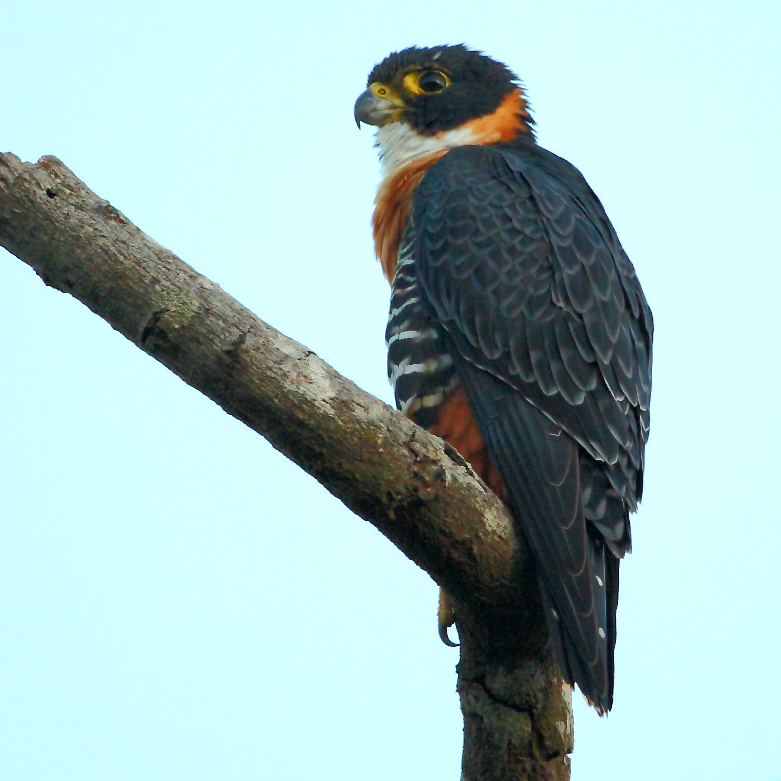 Orange-breasted Falcon at Chapada dos Guimarães - MT - Brazil